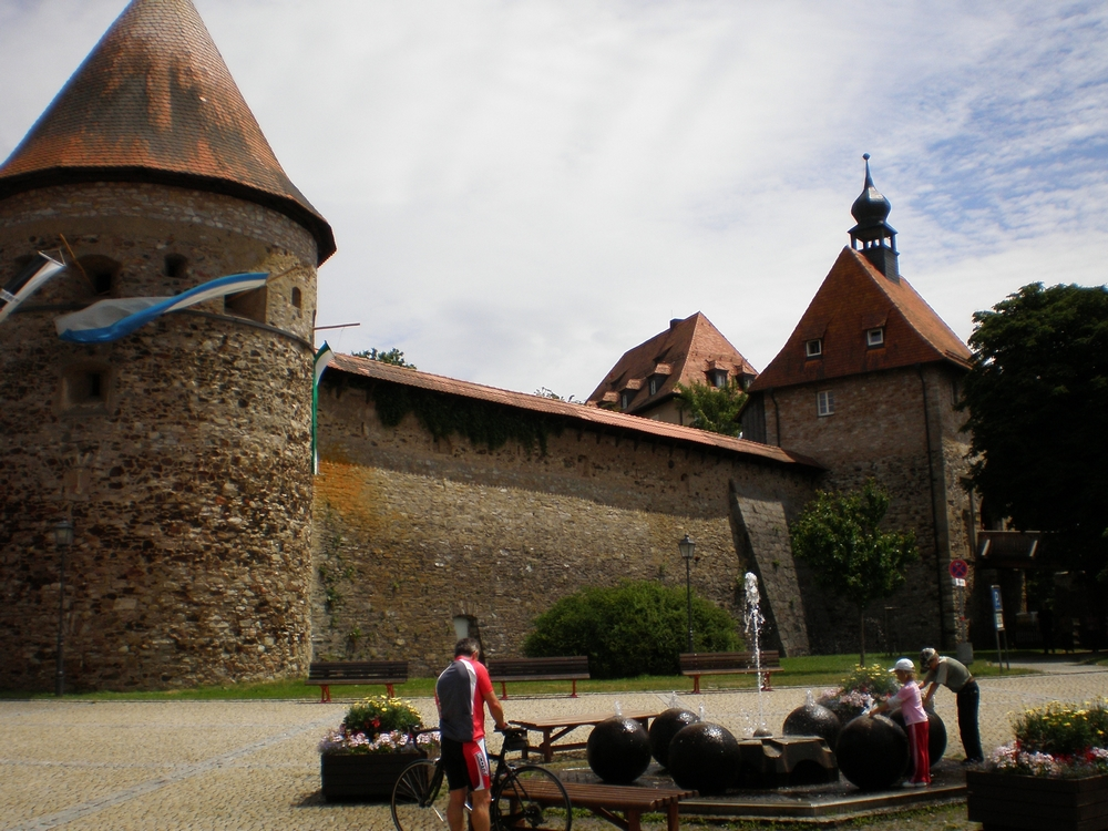 Castle Hohenberg, Hohenberg an der Eger, Bavaria, Germany.